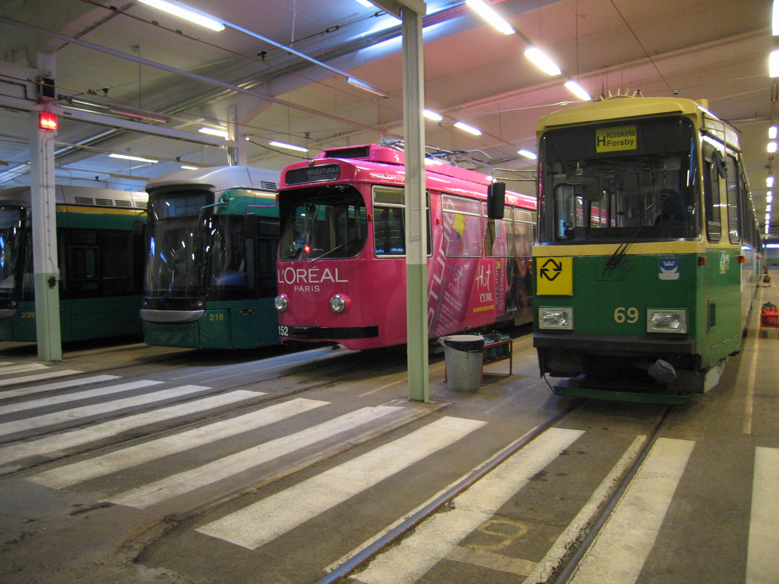 Three different type of trams in Helsinki, Finland